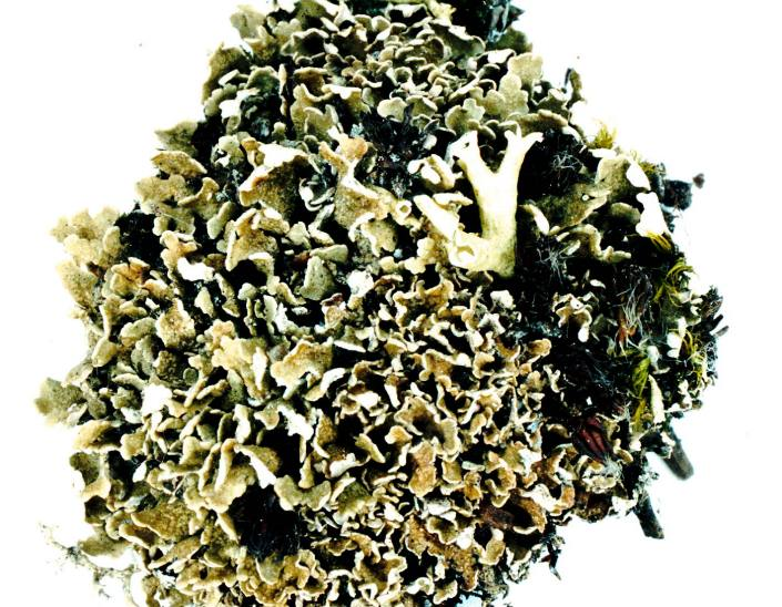 Cladonia strepsilis (Ach.) Vain., 1894 Photograph of a herbarium specimen. Note: thallus is C+ green. C. strepsilis was growing on a rock along the Little Cape Point Trail on Great Wass Island, Washington County, Maine, USA. Collected by E.C. Uebel, identified by Dr. David H.S. Richardson (No. U-185, 14 Jun 2001).